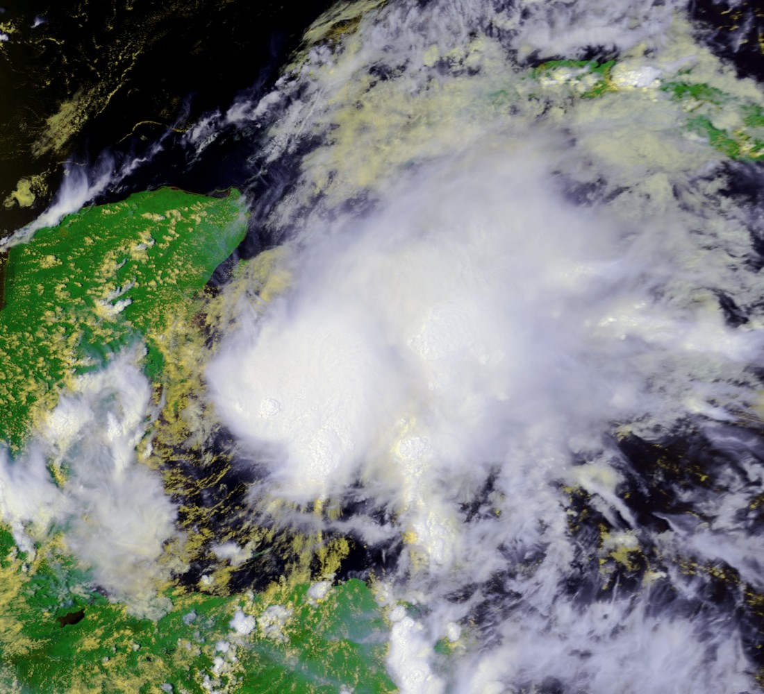 Tropical Storm Chantal on August 20 at approximately 1935 UTC. This image was produced from data from NOAA-16, provided by NOAA.